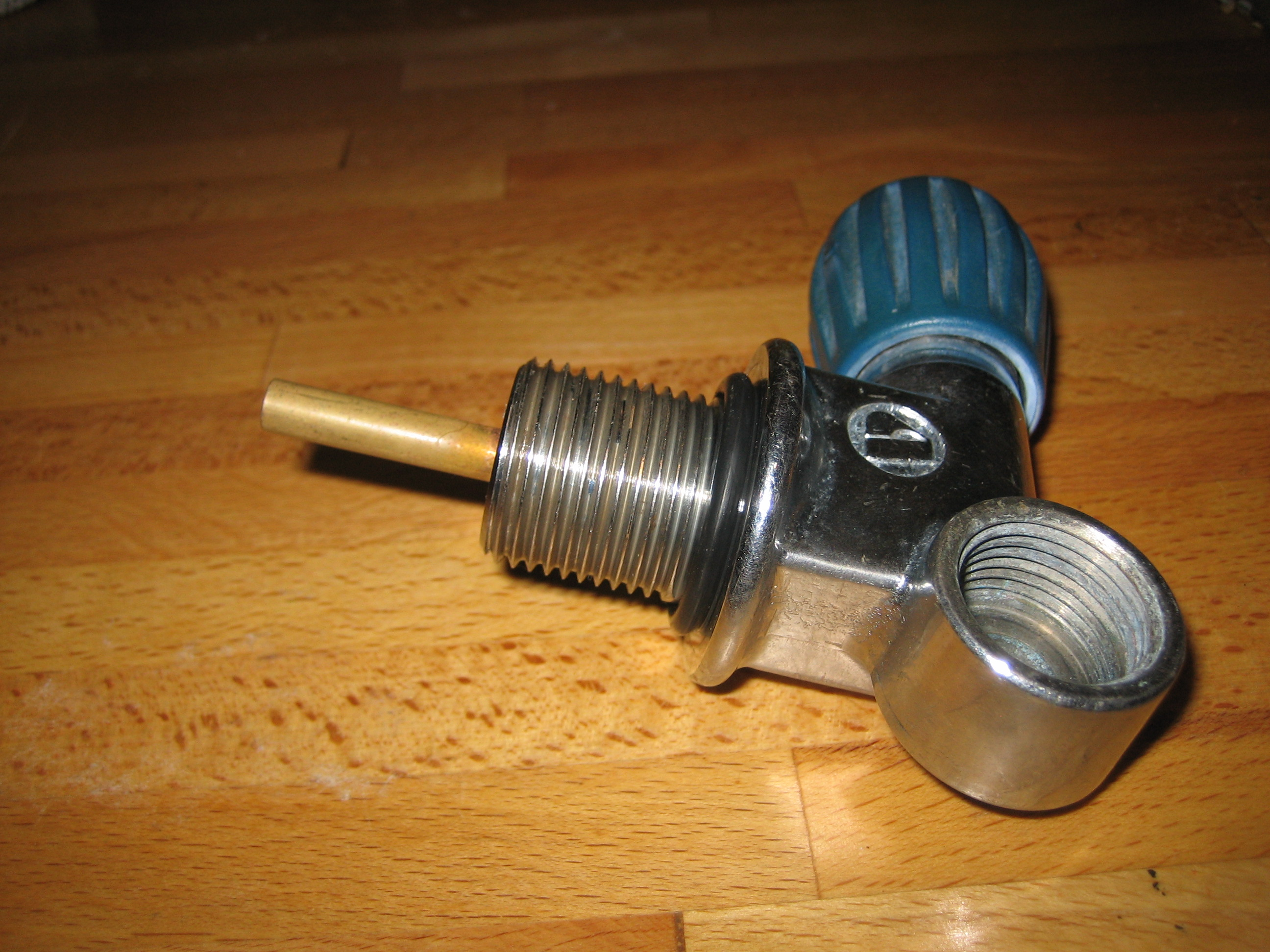 232 bar DIN Pillar_valve